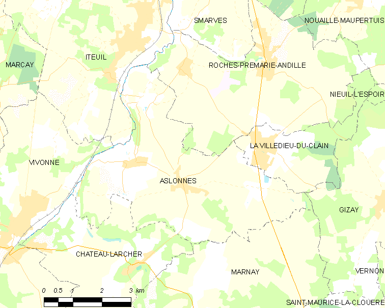 Map of French municipality Aslonnes